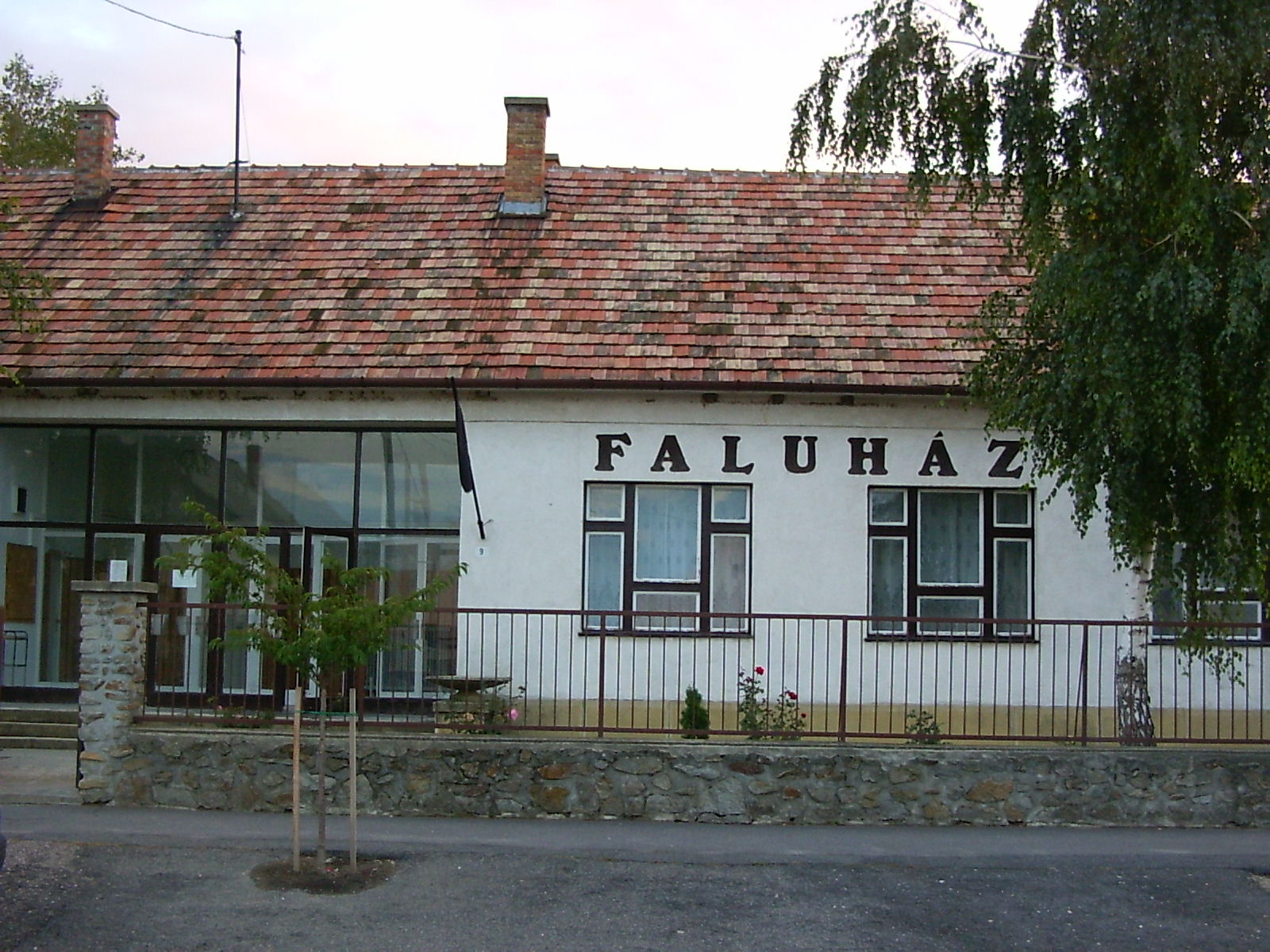 Community center of Pereszteg